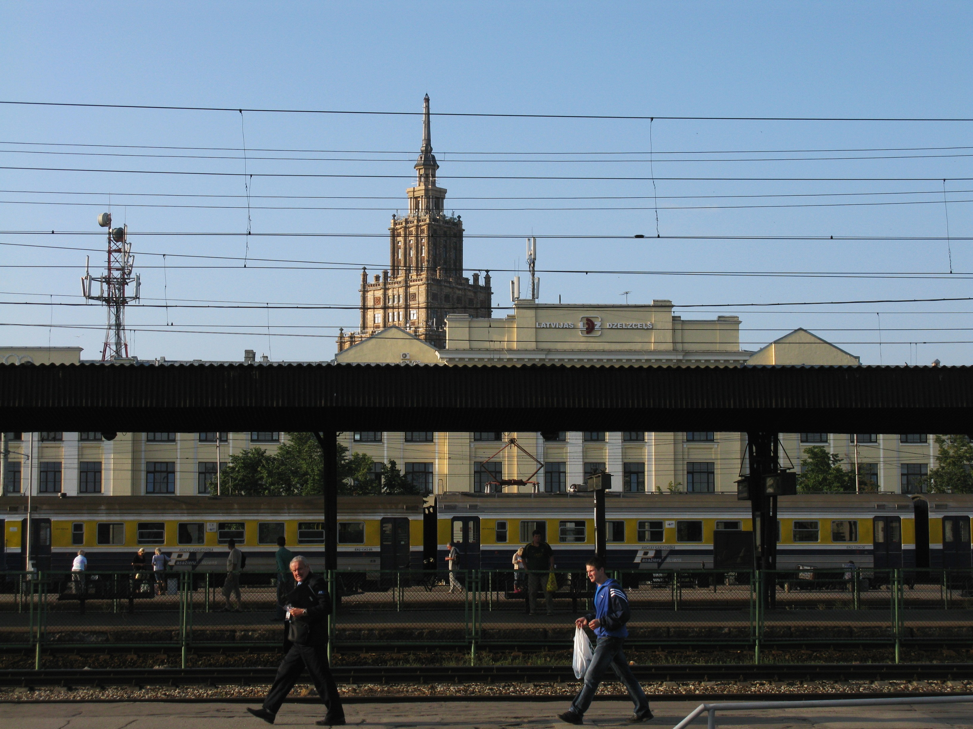 Impressions of Riga, Central Train Station